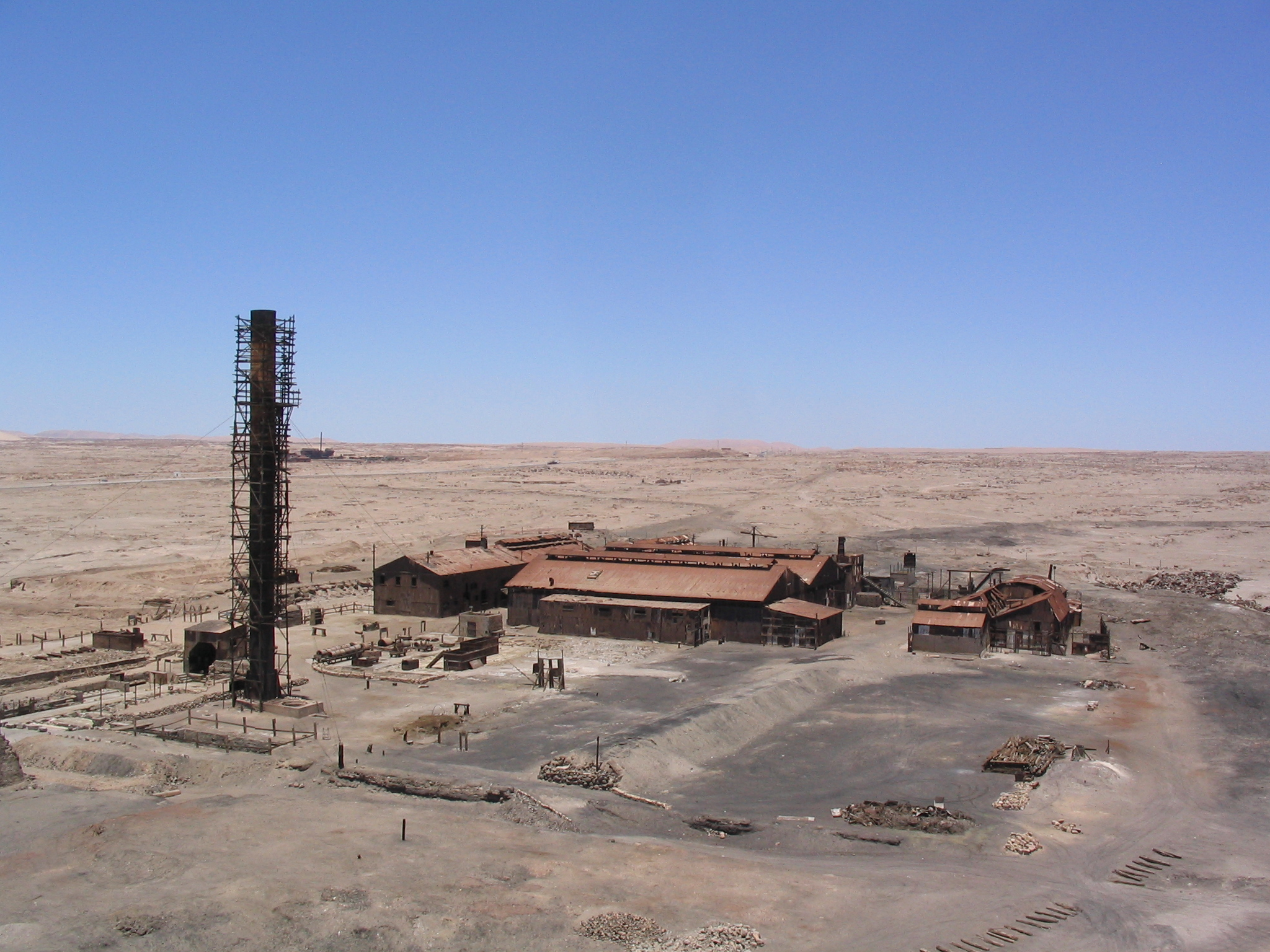 Old factory buildings in the abandoned city of Humberstone, Chile